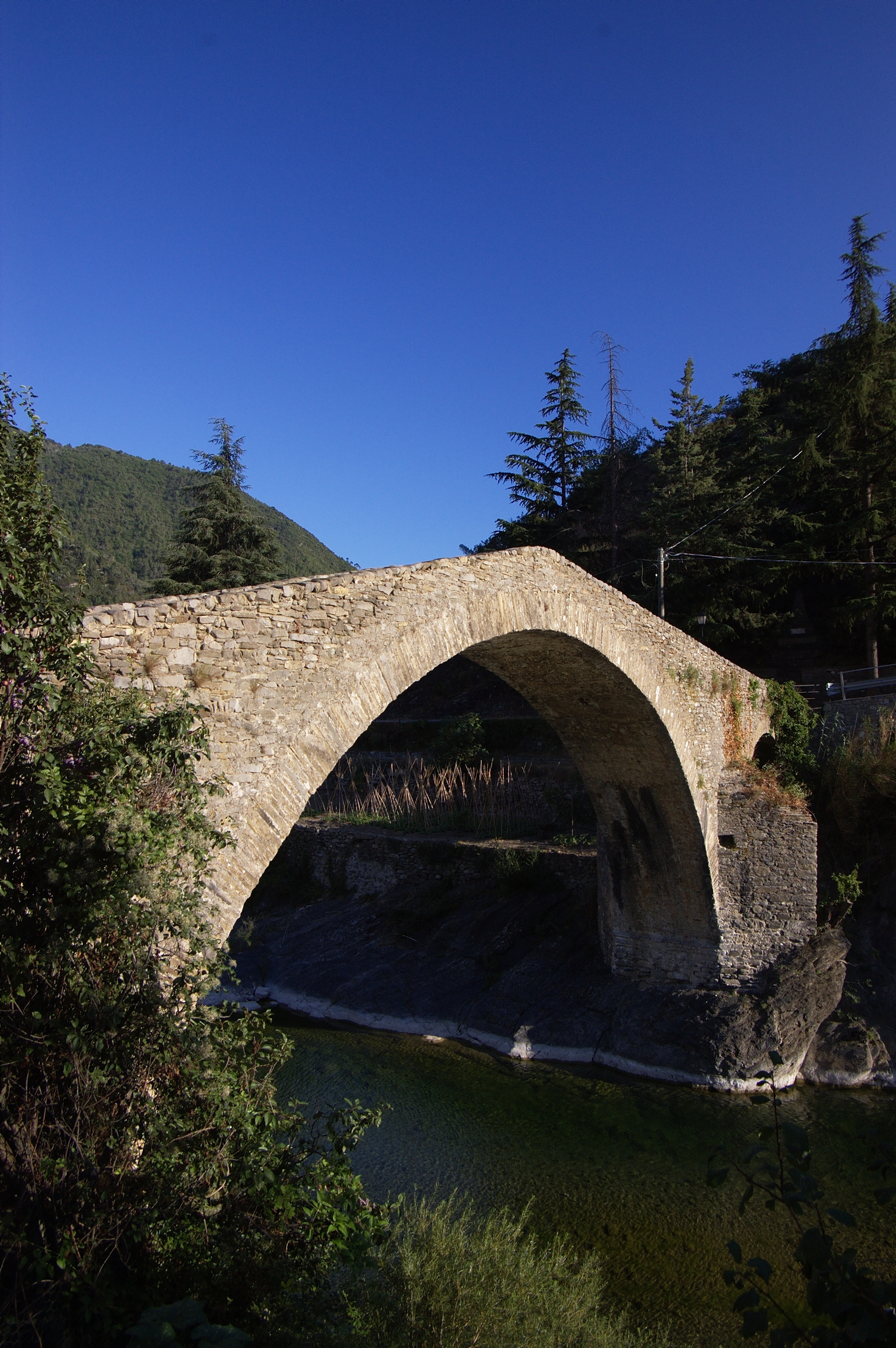 Bridge in Badalucco (Liguria, Italy).